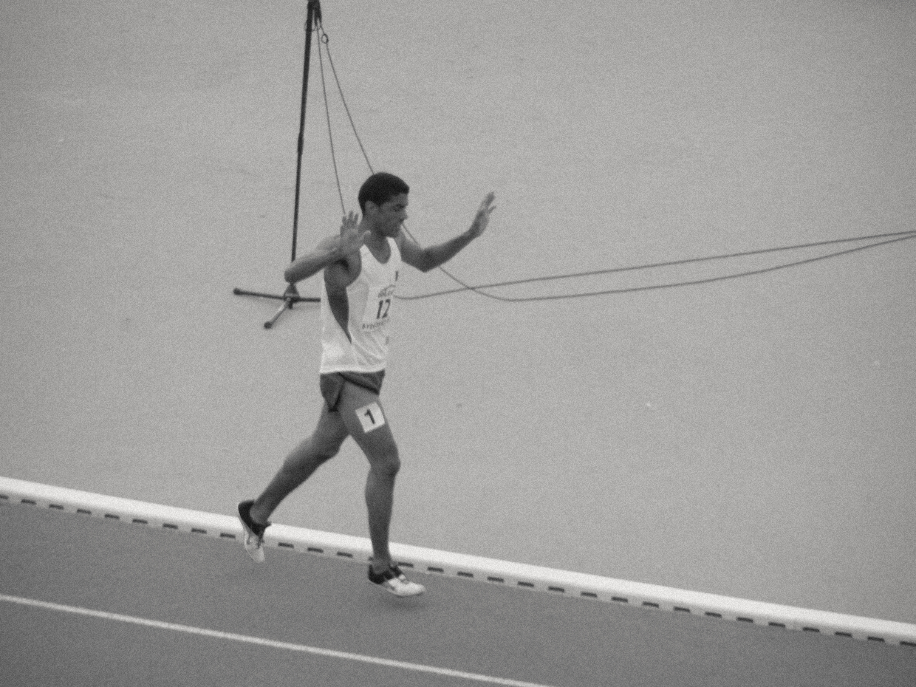 Imad_Touil